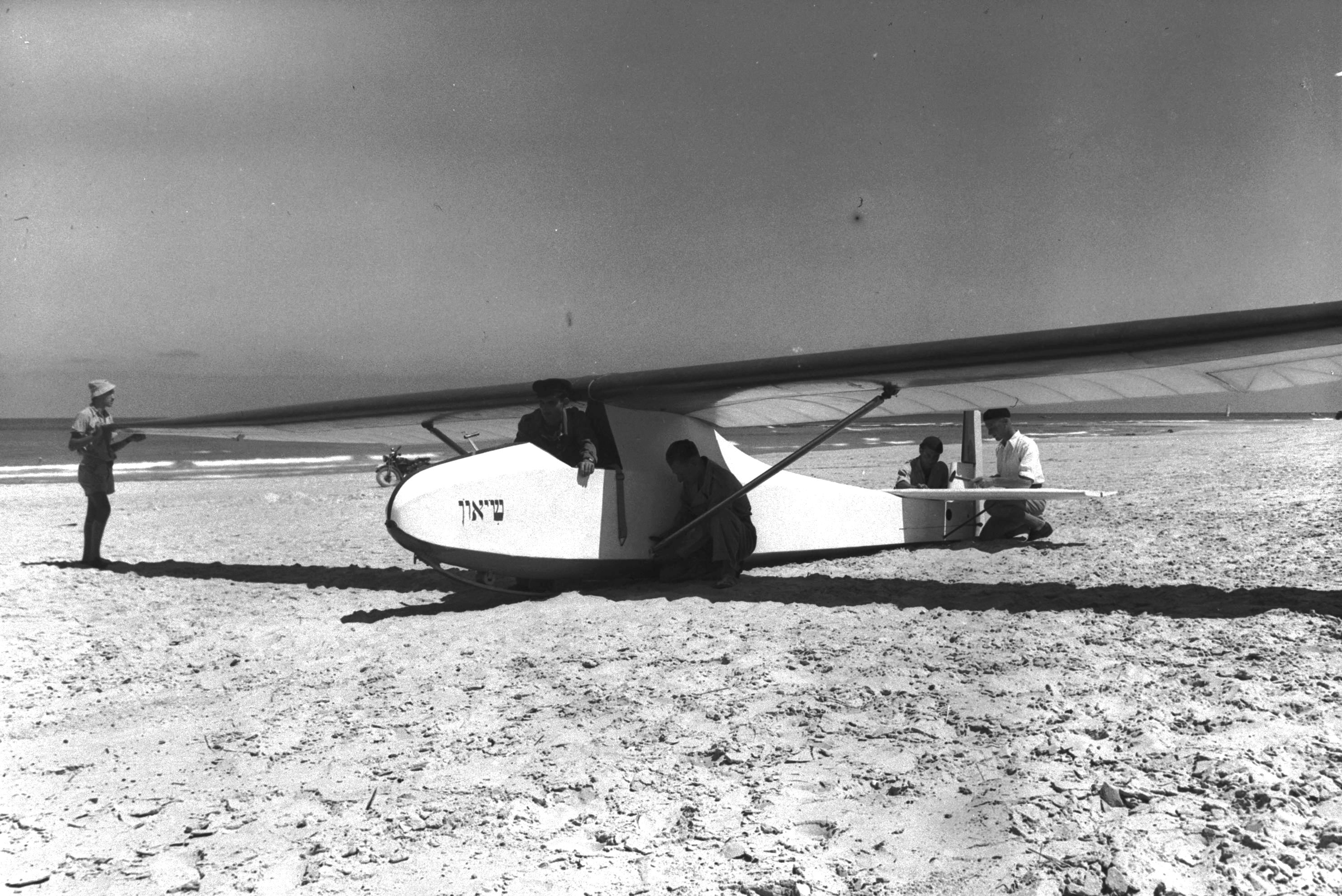 MEMBERS OF THE "FLYING CAMEL" GLIDING CLUB DURING TRAINING ON THE BEACH OF BAT YAM.